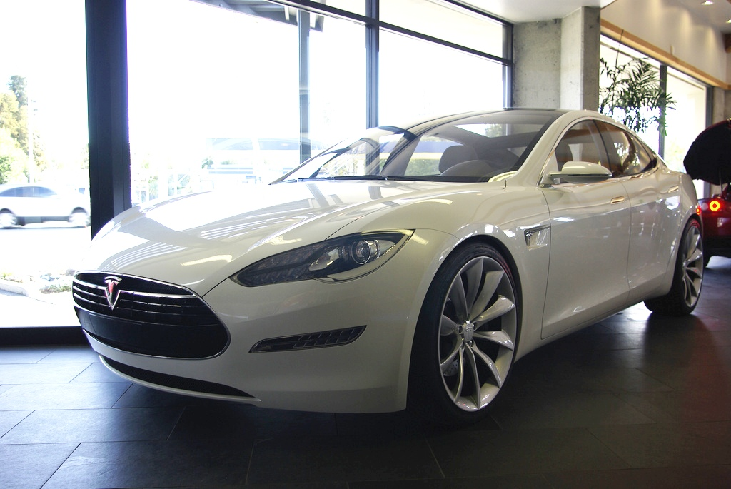 Tesla Model S sedan